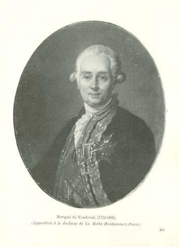 Luis-Philippe de Rigaud de Vaudreuil